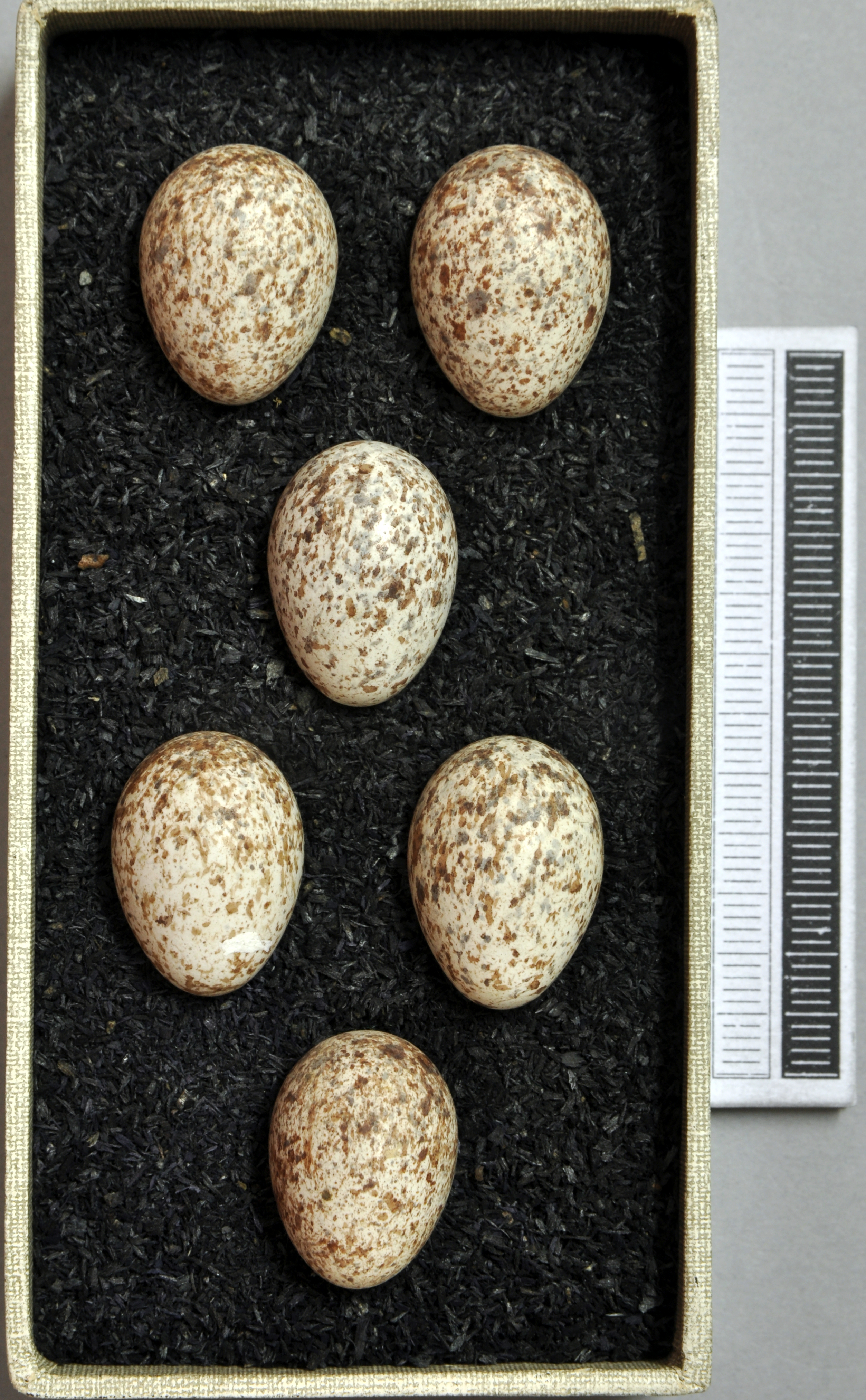 Rufous-tailed scrub robin Cercotrichas galactotes , egg, Coll. Museum Wiesbaden